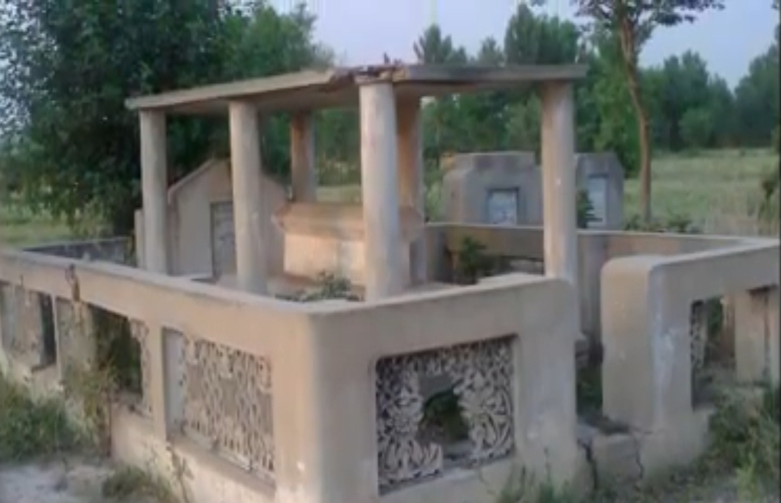 Village